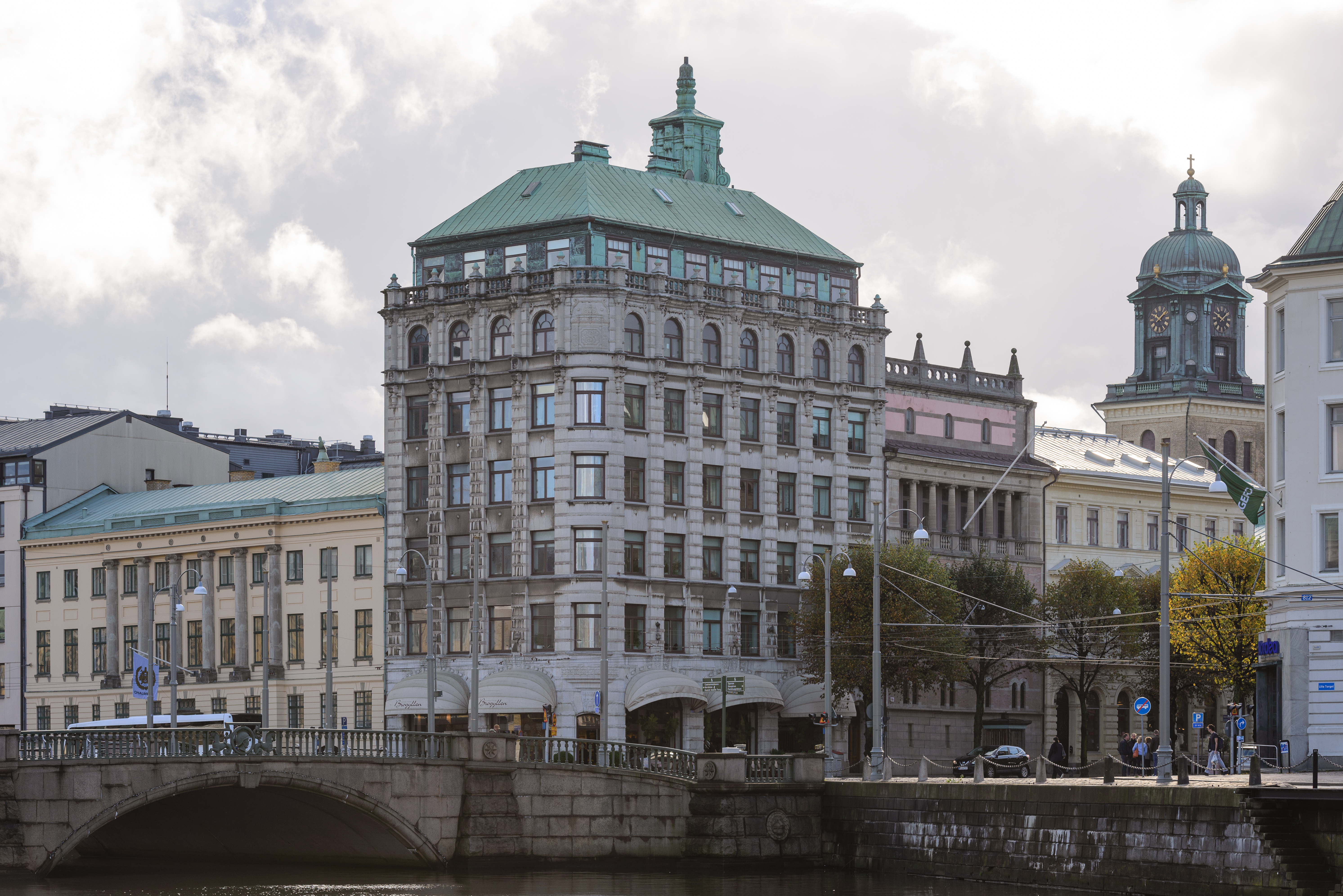 Skandiahuset, a historic office building, in the intersection of Södra Hamngatan and Västra Hamngatan.